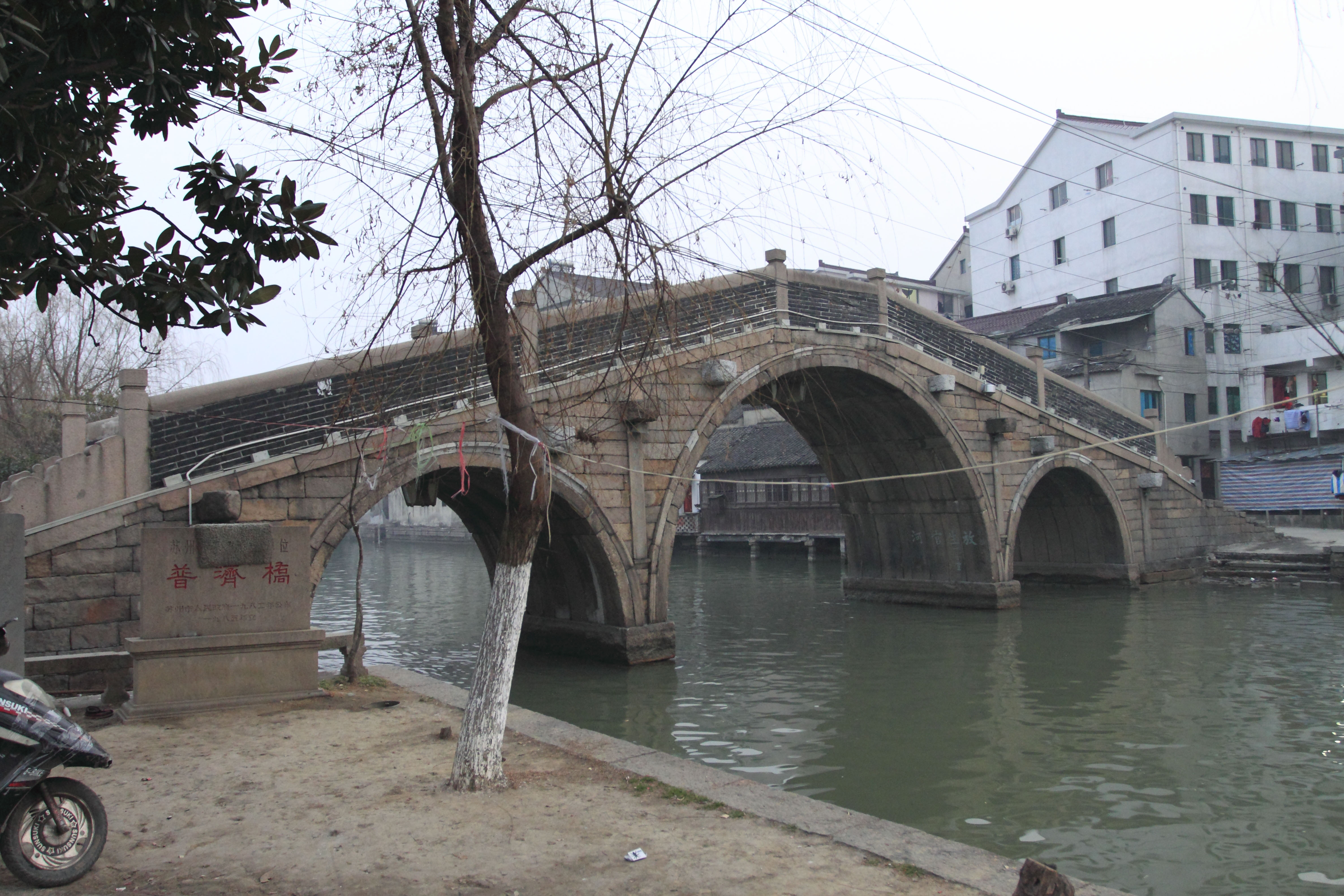 Puji Bridge in Suzhou - China.